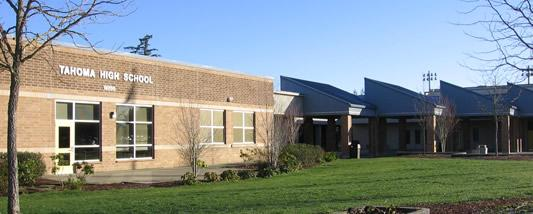 The front entrance of Tahoma Senior High School